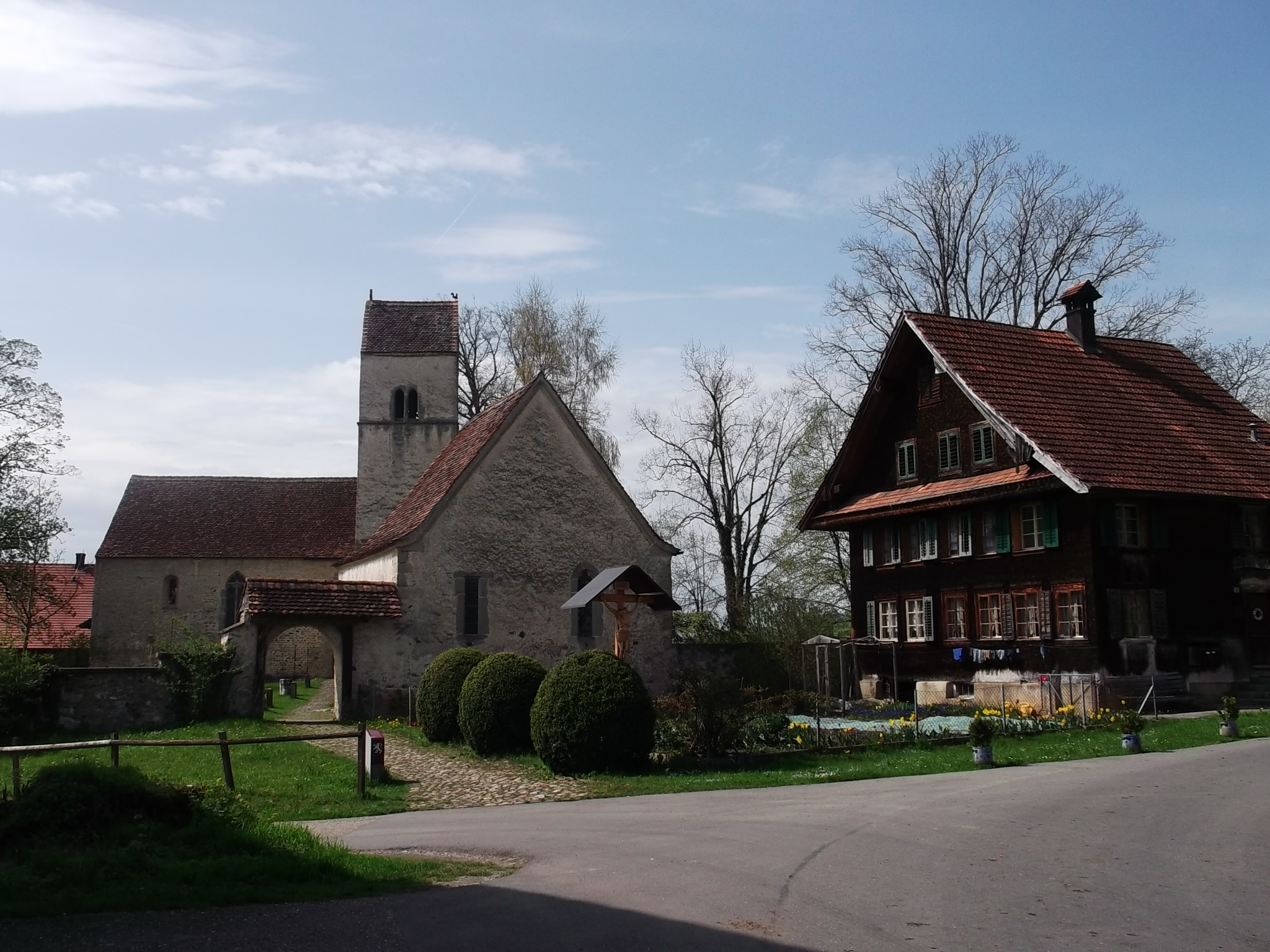 Ancient church St. Martin in Kirchbühl , Sempach (Kanton Luzern, Switzerland)